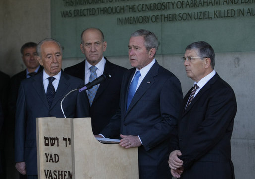 President George W. Bush makes a brief statement after his visit Friday, January 11, 2008, to Yad Vashem, the Holocaust Martyrs’ and Heroes’ Remembrance Authority, in Jerusalem. Standing with him from left are: President Shimon Peres, left, of Israel; Prime Minister Ehud Olmert, of Israel, and Avner Shalev, Chairman of Yad Vashem Directorate. (White House photo by Eric Draper)